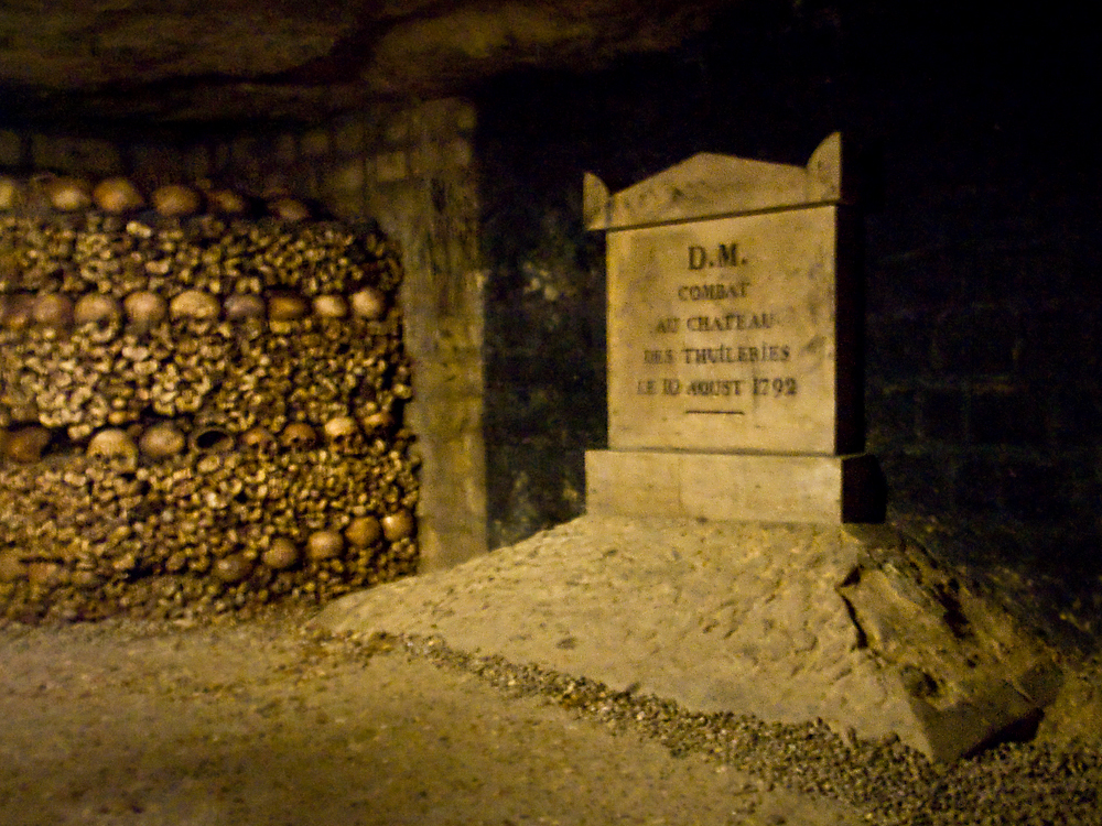 Catacombs of Paris: plaque commemorating the fighting at the Tuileries on 10 August 1792, during the French Revolution. Many of those killed in this event had been buried directly in the Catacombs.